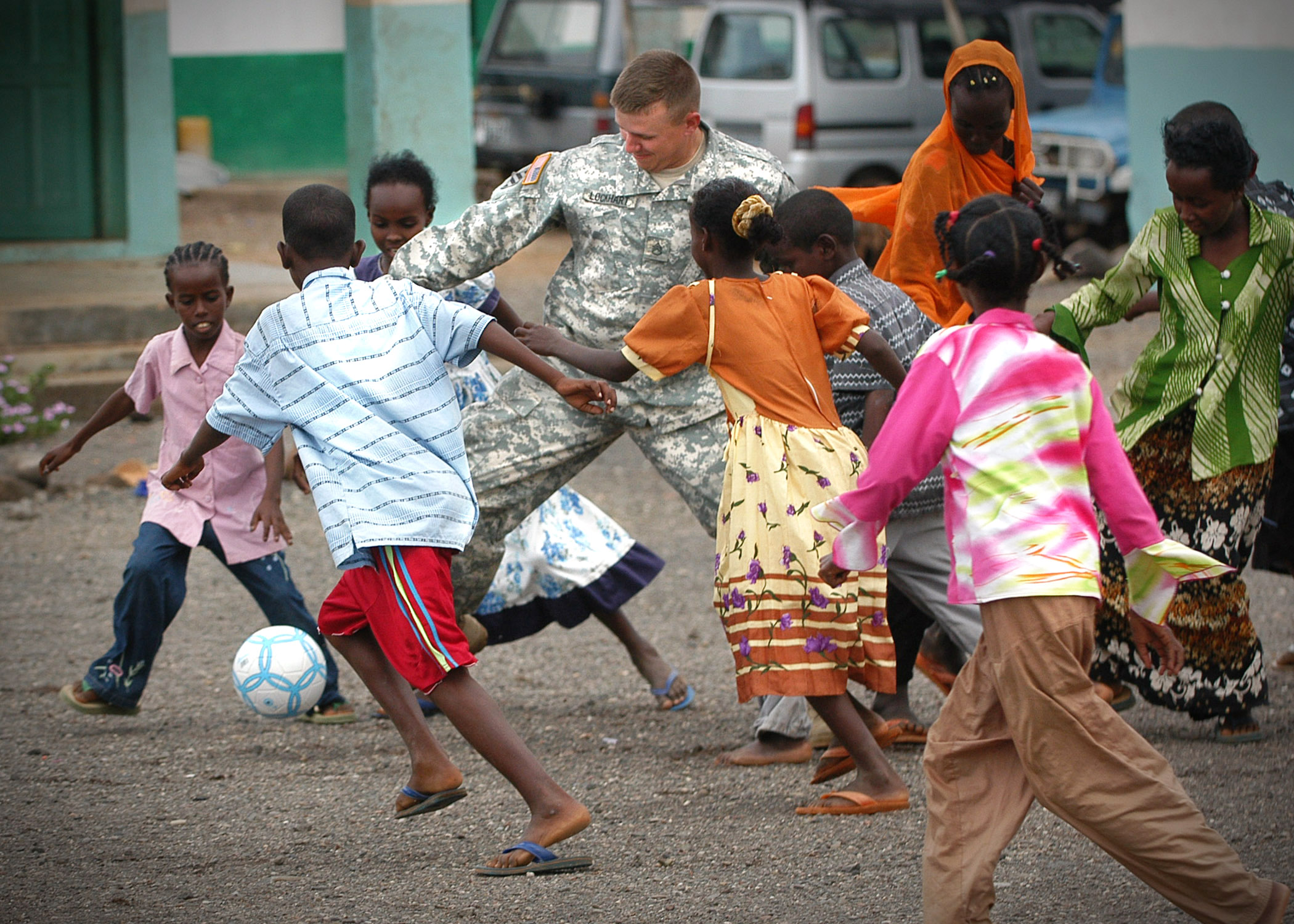 Djibouti City, Djibouti (Dec. 2, 2006) - U.S. Army Staff Sgt. Justin Lockhart, attached to Bravo Co., 489th, Civil Action Battalion, participates in a game of soccer with students from the Djibouti City School, after handing out school supplies collected by Combined Joint Task Force-Horn of Africa. U.S Navy photo by Chief Mass Communication Specialist Eric A. Clement (RELEASED)